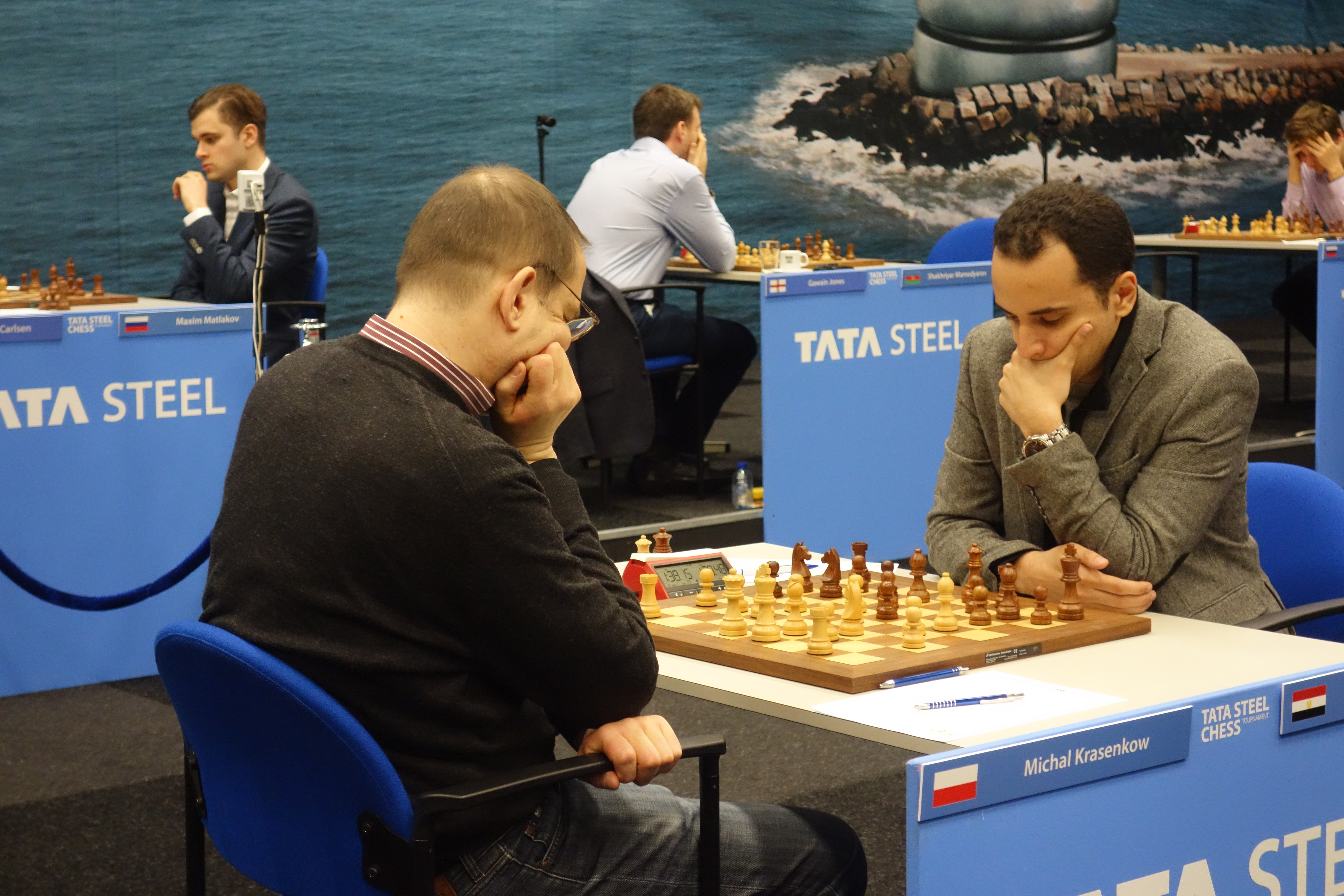 Tata Steel chess tournament 2018. Krasenkow vs Amin